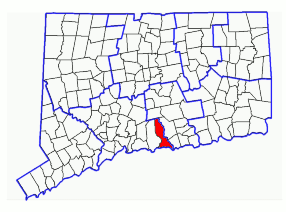 Subject: Map of Connecticut Townships with Madison highlighted. Derived from sub-county SVG map of Connecticut at Libre Map Project using Adobe SVG viewer and Gimp 2.2.1.3